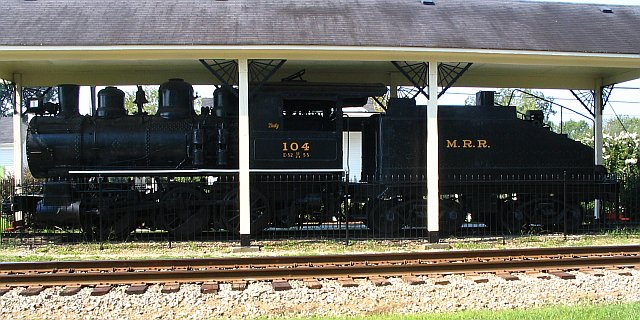 Alongside the Conyers Depot is "The Dinky," a 1905 Rogers Steam Locomotive that ran service between Conyers and the neighboring mill town of Milstead until 1961. The engine was used to haul cotton from the main line to the textile mills. It is one of only three of its kind in the world. Photo taken by Steve Karg